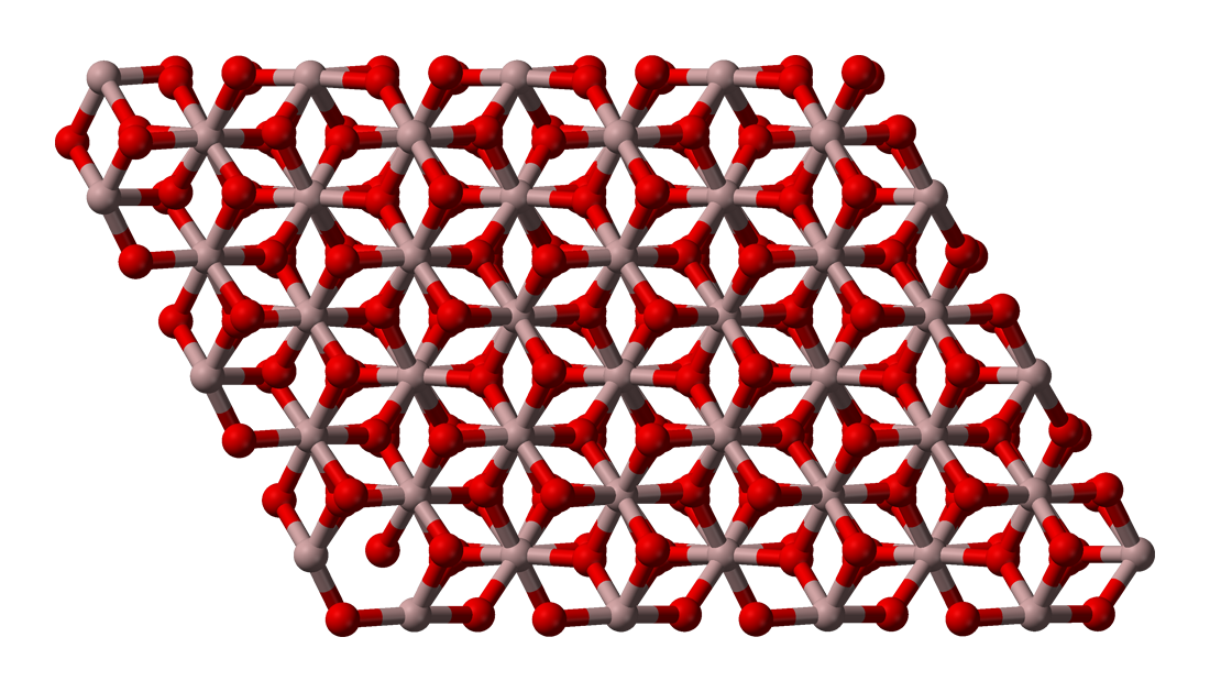 Ball-and-stick model of part of the crystal structure of corundum, α-Al2O3. Colour code: Aluminium, Al: grey-brown Oxygen, O: red